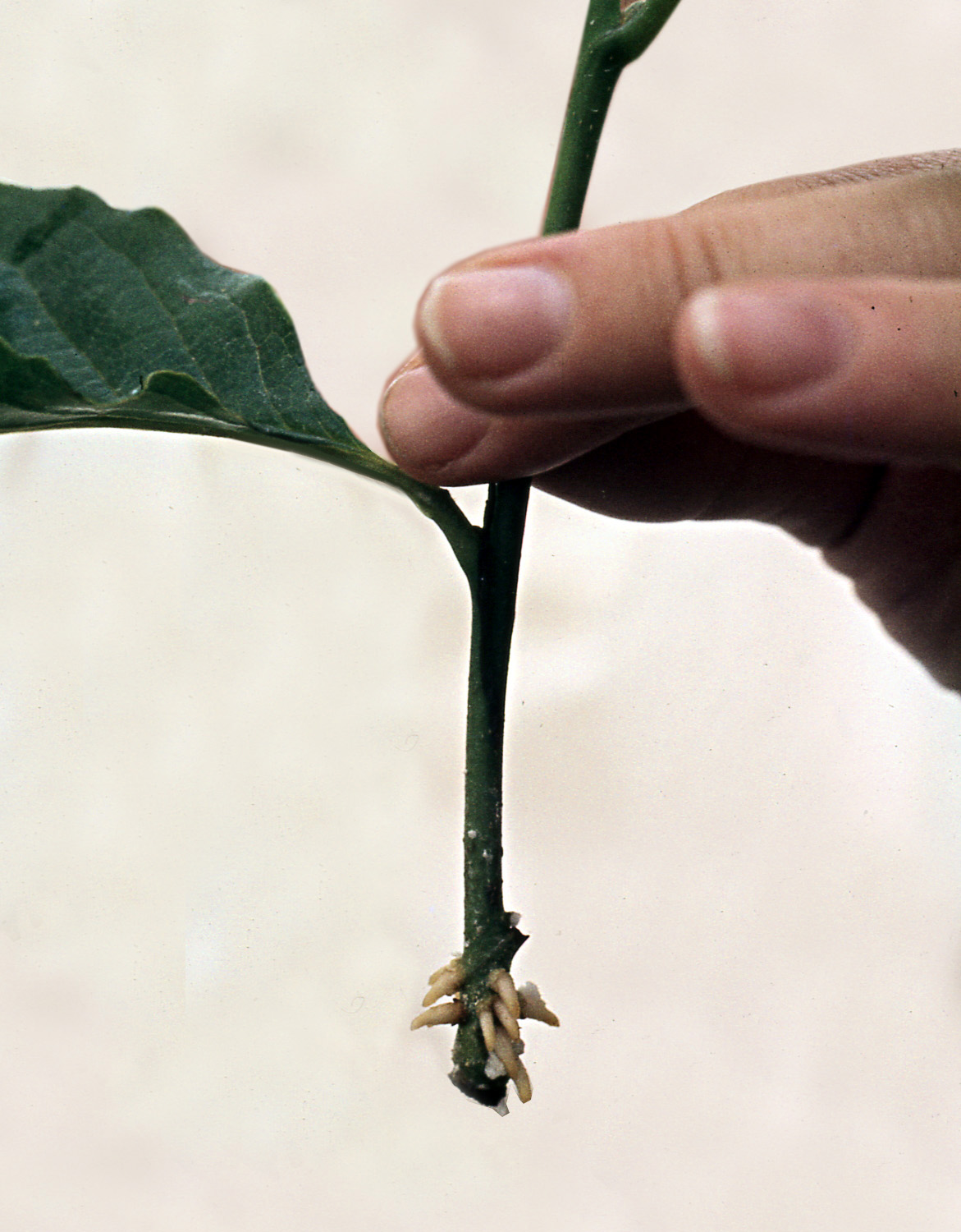 Adventitious roots of Magnolia cutting Pistoia - Baldacci Vivai (25.06.1980, photo: Mihailo Grbić)